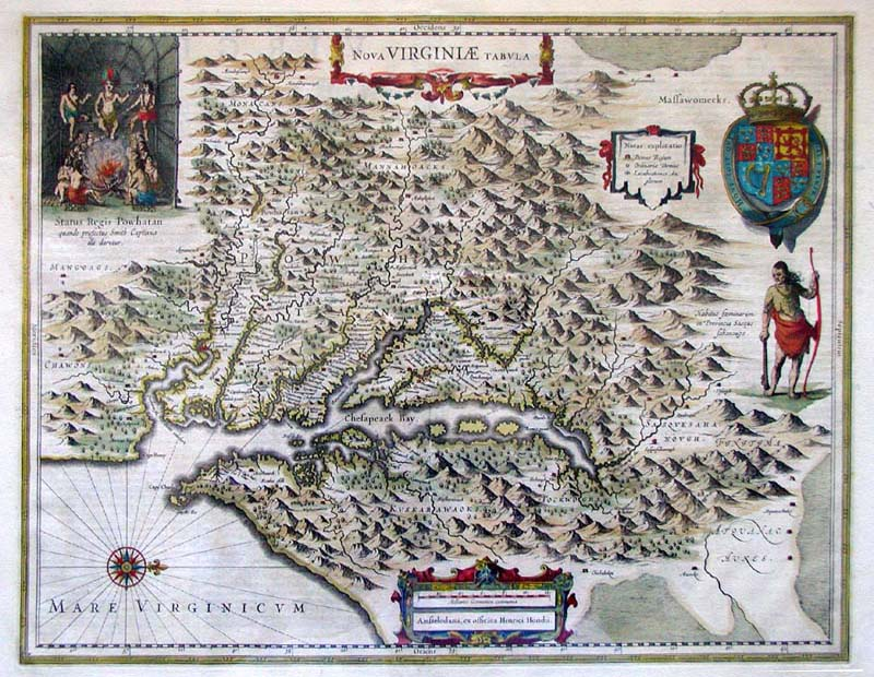 1612 map of Virginia, eastern North America. This map was based on John Smith's 1612 map of the Virginia Colony, and was colored in by Henricus Hondius in 1639.